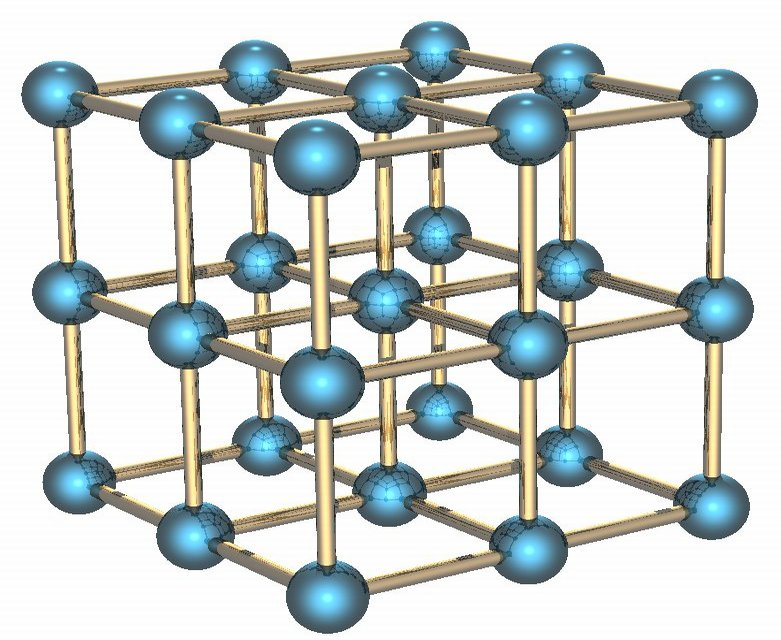 Alpha lattice of Po metal, note it is not interpenitrated a myth exists which started many years ago that the alpha phase is of three cubic interlinking lattices